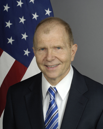 William H. Moser was confirmed on August 2, 2011 by the U.S. Senate to become the next U.S. Ambassador to the Republic of Moldova. He was sworn in on September 6, 2011.